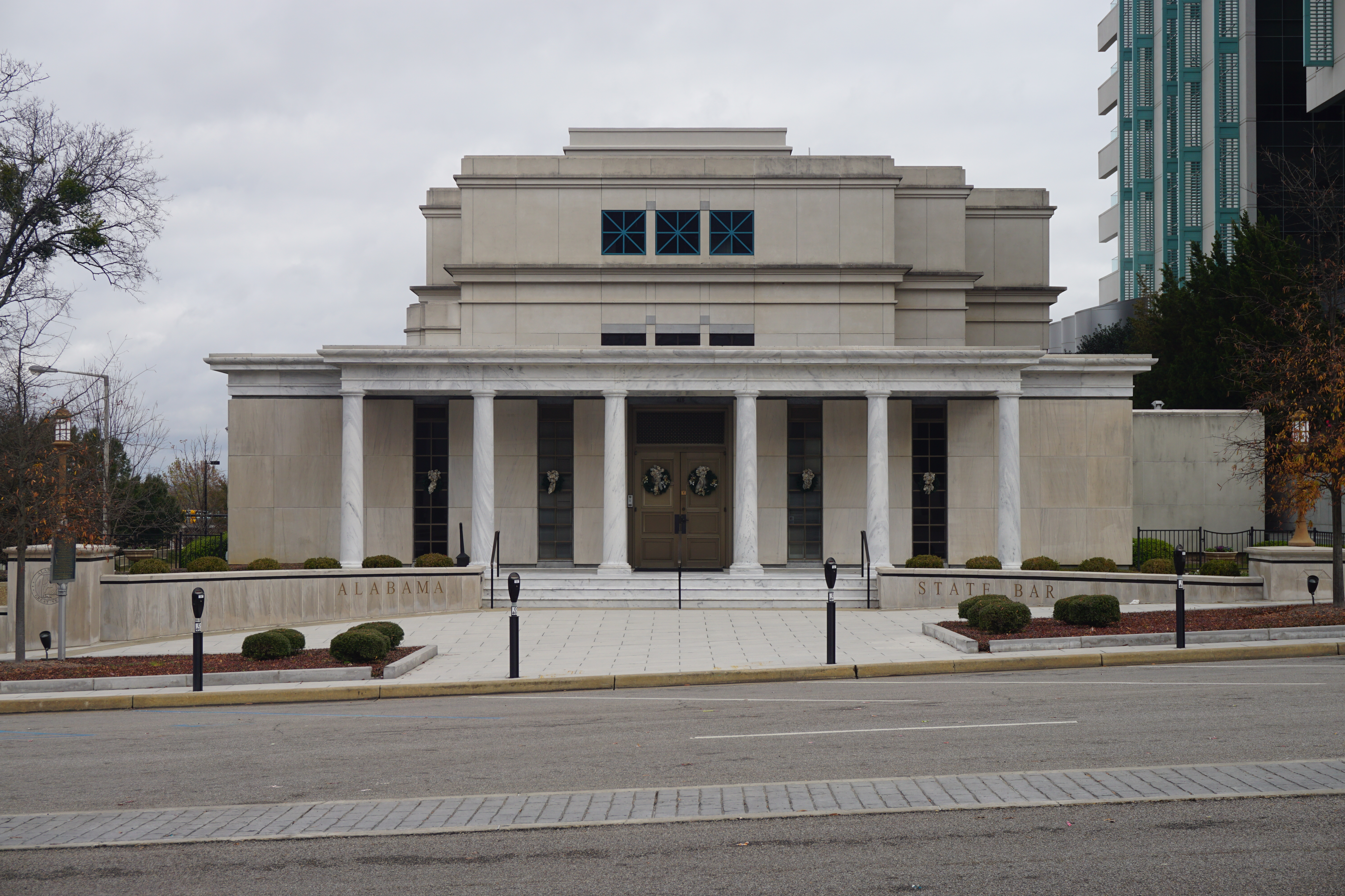 The Alabama State Bar building in Montgomery, Alabama (United States).